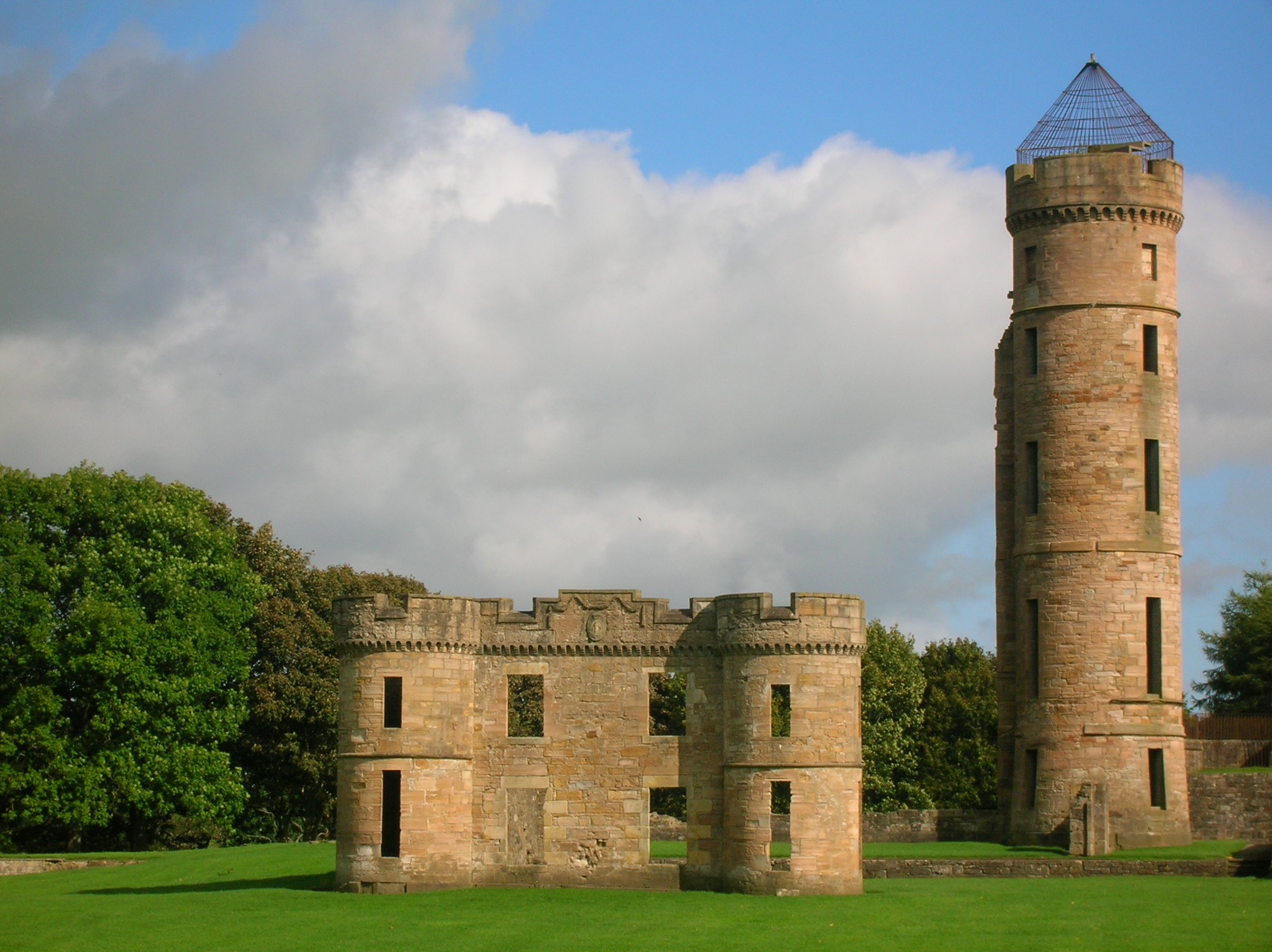 Eglinton castle ruins, Eglinton Country Park, Kilwinning, North Ayrshire, Scotland. A view from the old stables/offices side.